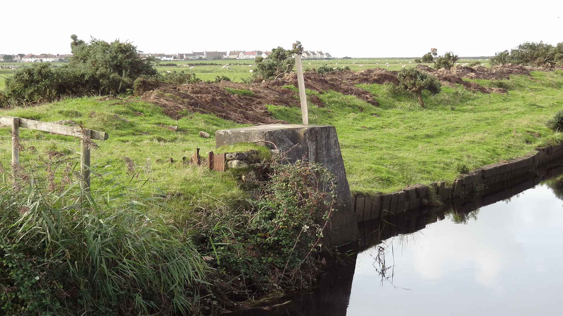 The Sand Bank, keeping the tide from reaching the Gwaliau, Tywyn